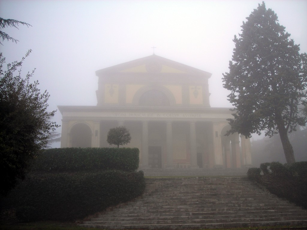 Facade of Canoscio church, in the mist